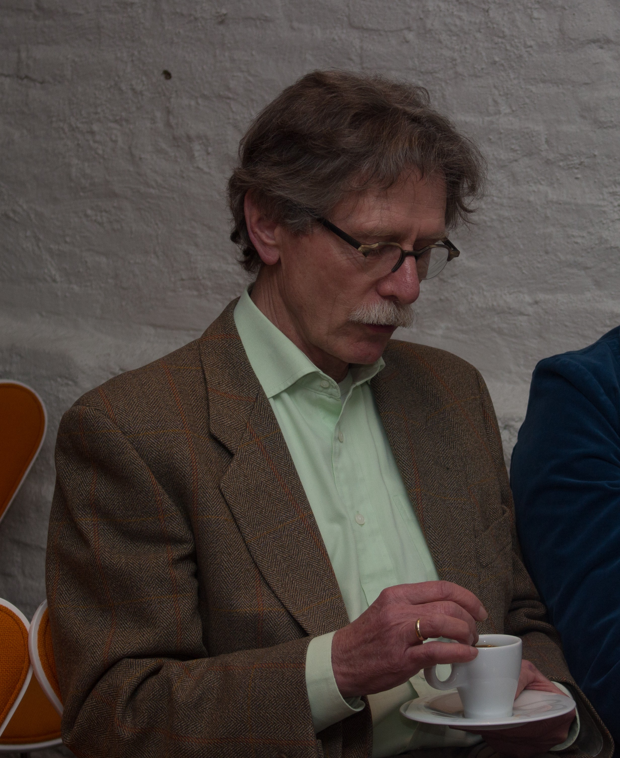 Peter Moleman and his wife